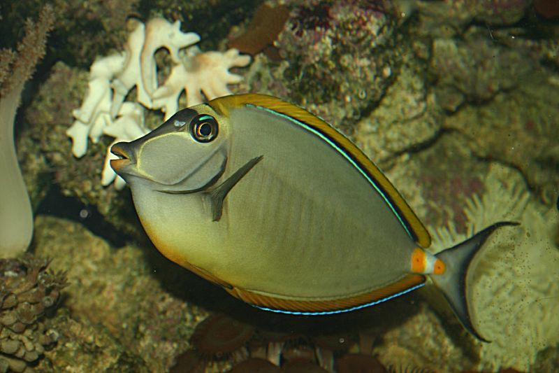 Naso lituratusSome type of Butterfly Fish